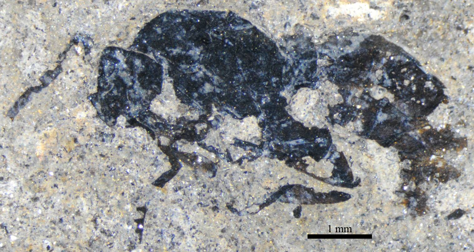 The Cyrtopone curiosa holotype queen. Fossil preserved as a lateral impression. Specimen number SMFMEI6075